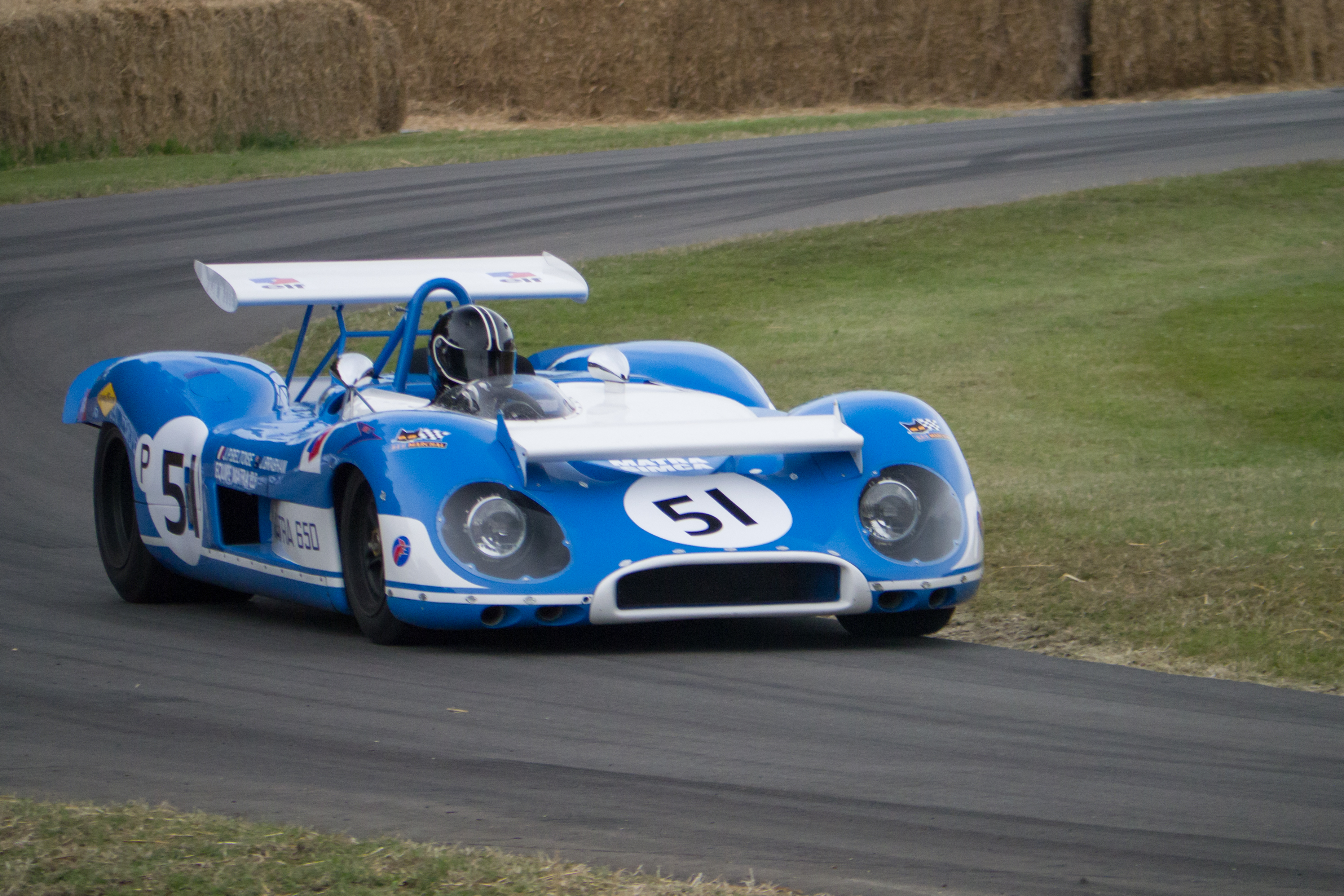 Probably the best sounding engine in the world